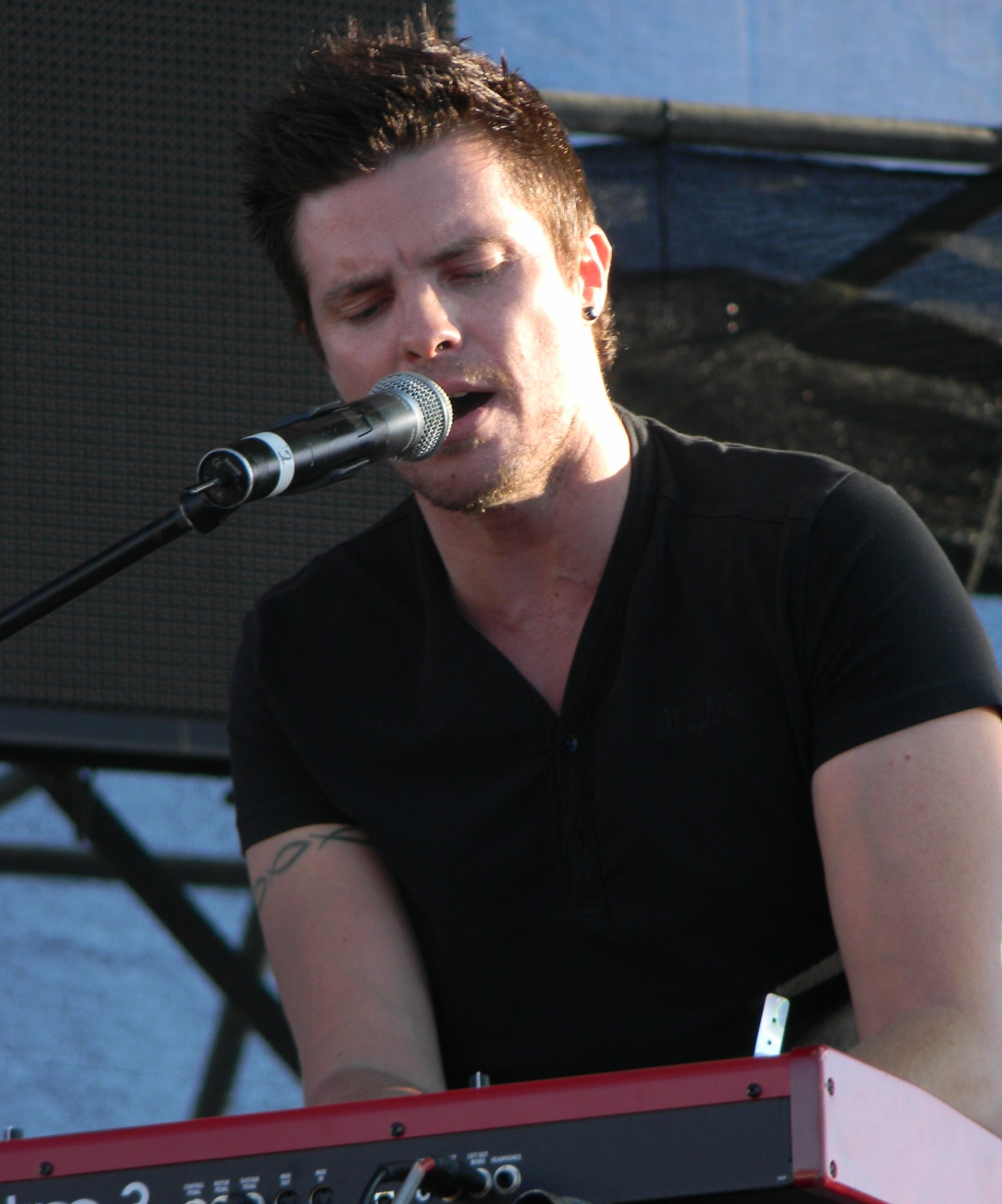 Elvis Blue1.jpg